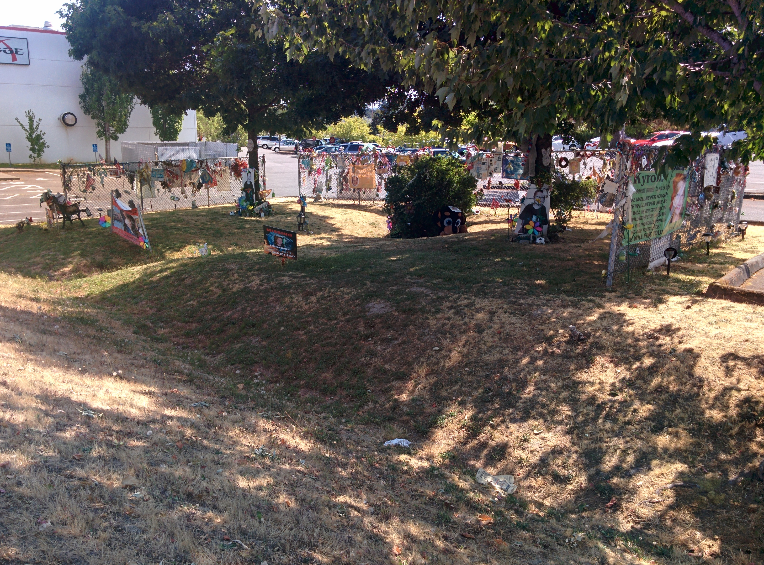 Memorial for Kyron Horman, over five years since his disappearance. enwp link: Disappearance of Kyron Horman